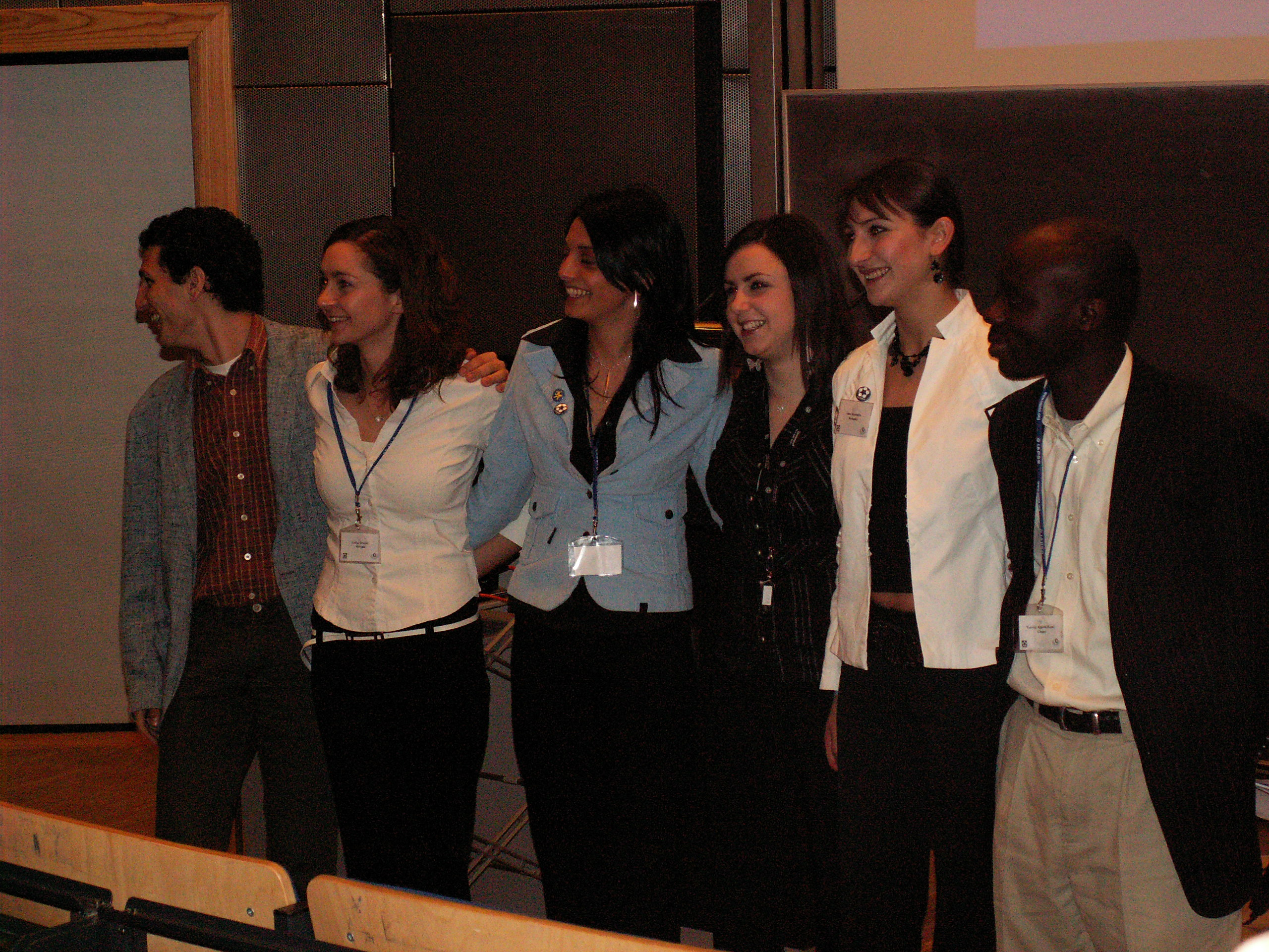 The International Association for Political Science Students Executive Committee as elected in Amsterdam, 2006.